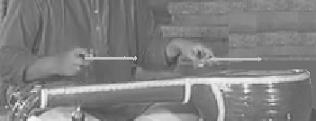 South Indian string drum